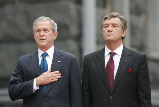 President G. W. Bush in Kiev